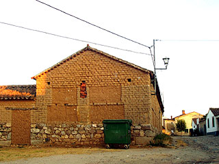 Pozanco: a typical house built in adobe bricks.